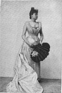 Georgie Drew Barrymore (playing the role of Mrs. Hilary in "The Senator")